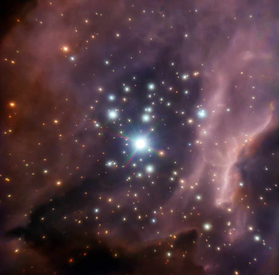 Colour composite image of the central part of the stellar cluster RCW 38, around the young, massive star IRS2, taken with the NACO adaptive optics instrument attached to ESO's Very Large Telescope. Thanks to this image, astronomers were able to discover that IRS2 is in fact a twin system composed of two almost equally massive stars. The astronomers also found a handful of protostars – the faintly luminous precursors to fully realised stars – and dozens of other candidate stars that have eked out an existence here despite the powerful ultraviolet light radiated by IRS2. The image is based on near-infrared data taken through three different filters (J, H and K). The field of view is about 1 arcminute across.